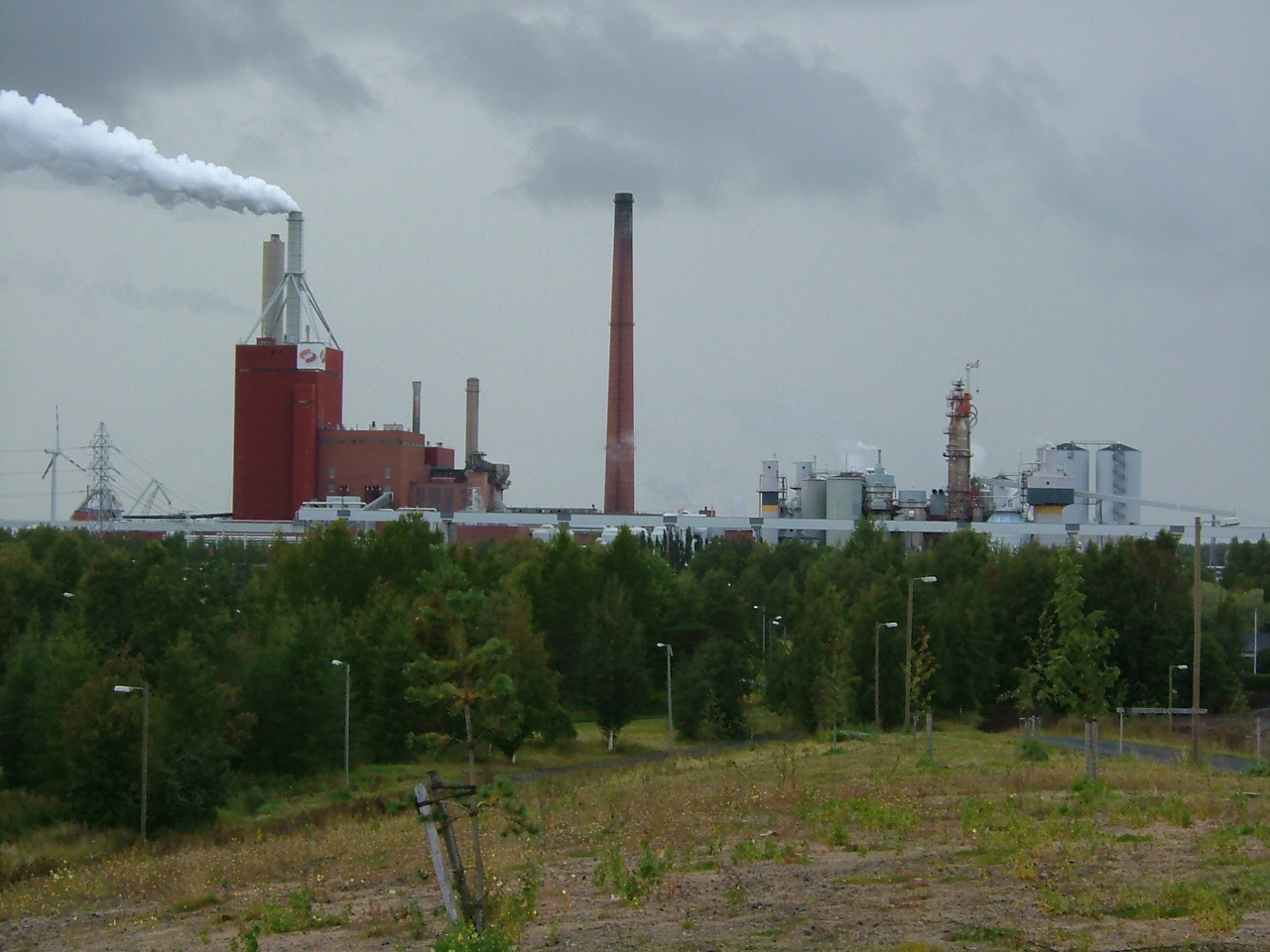 Stora Enso pulp and paper mill in Oulu, Finland